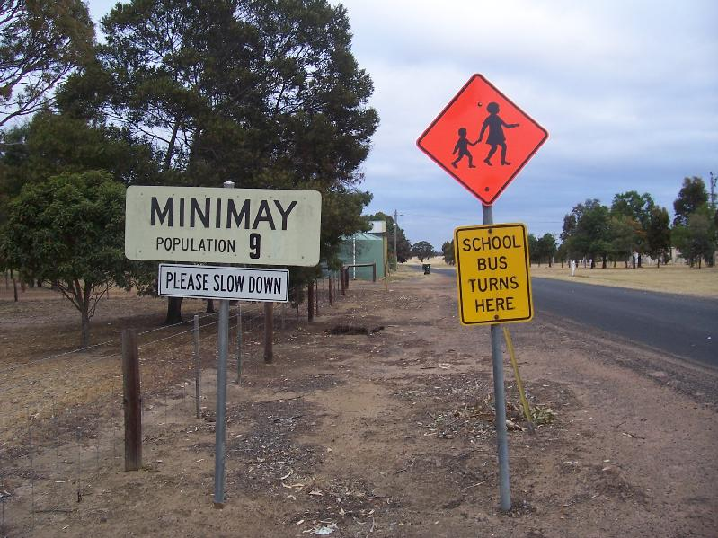 Photo of town entrance